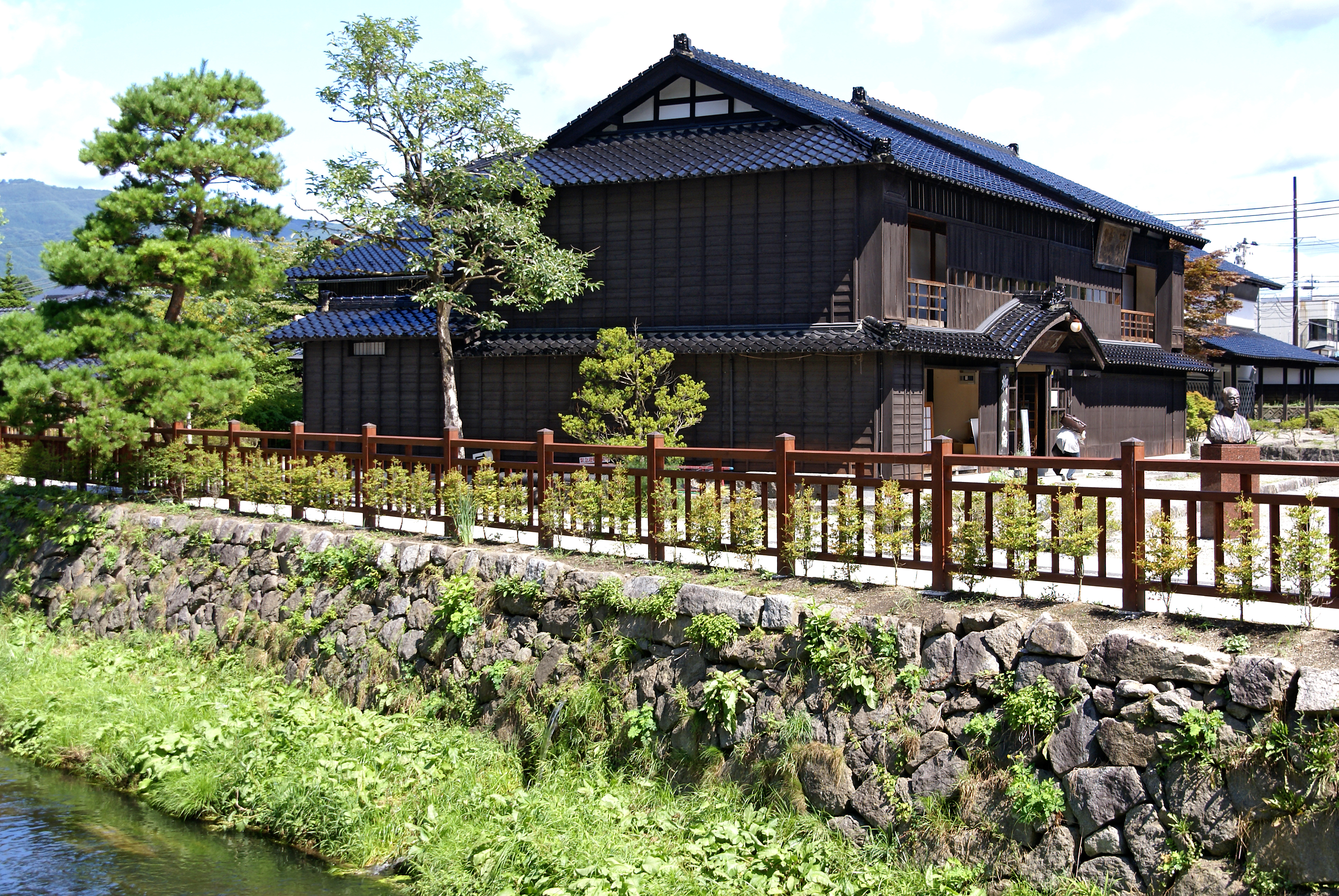 Tono-mukashibanashi-mura (A village of a Japanese old tale) in Tono, Iwate prefecture, Japan